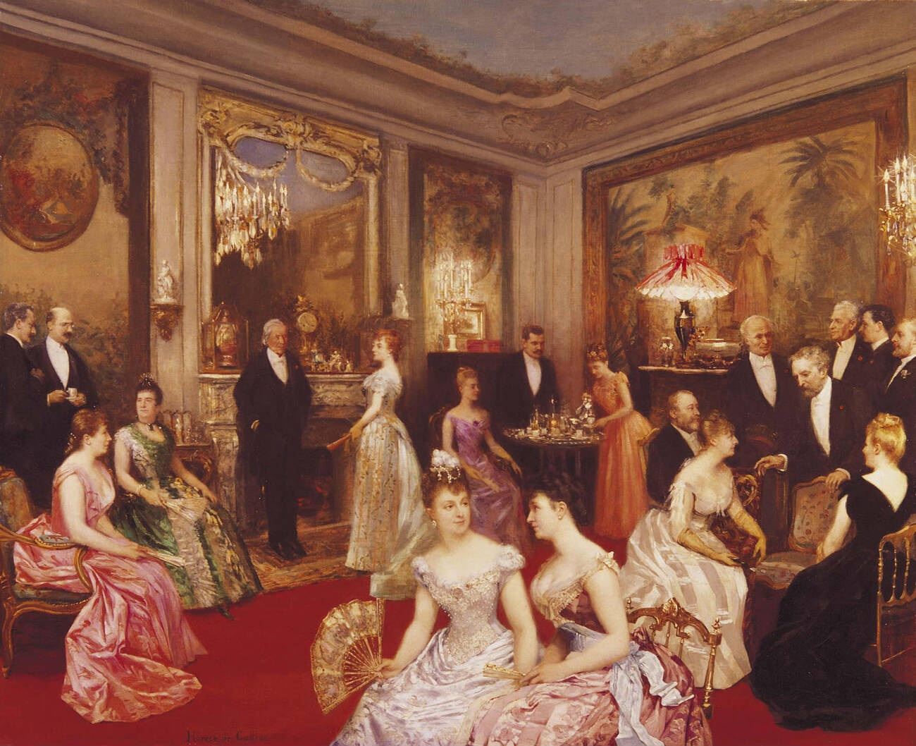 An Elegant Soiree